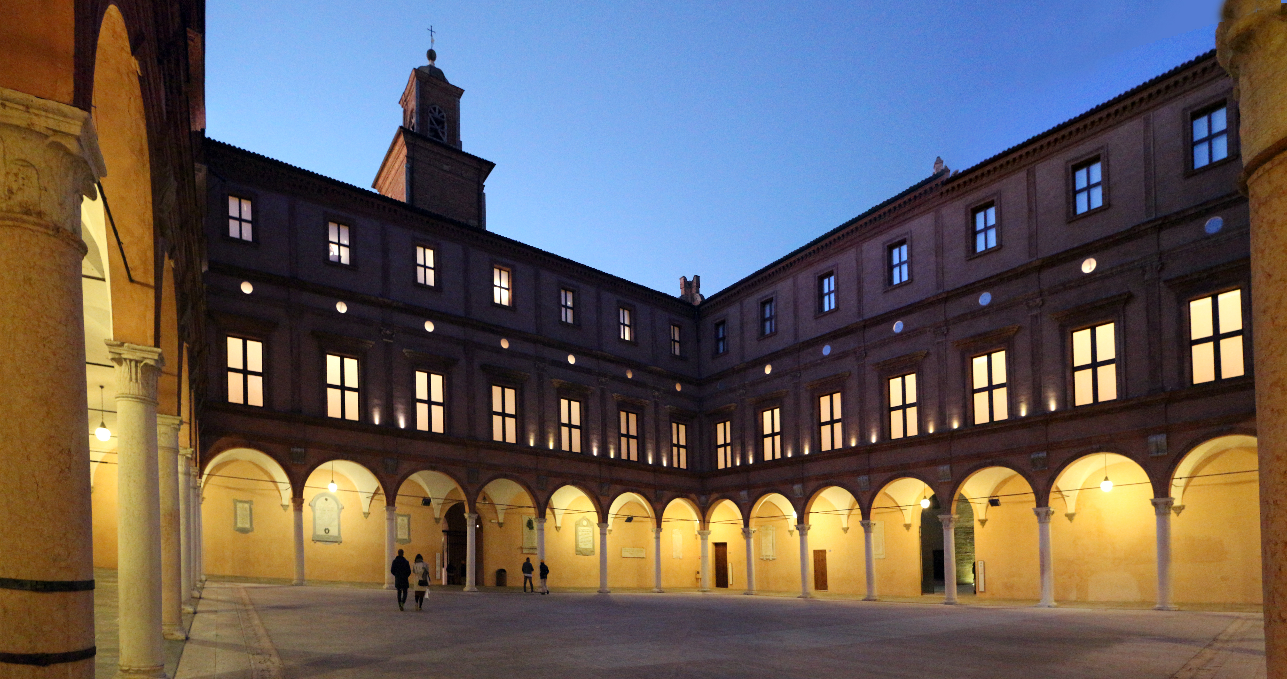 Palazzo dei Pio